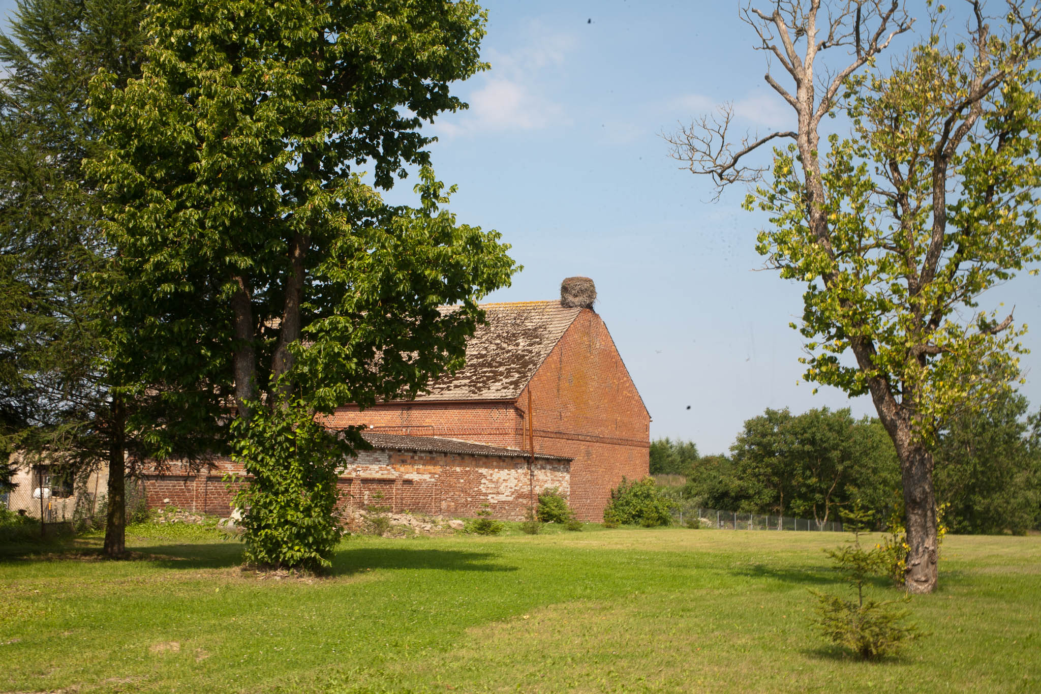 Stork nest in Ząbrowo, Poland